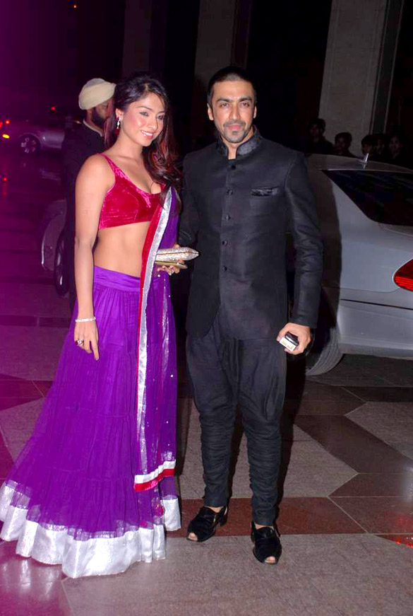 Samita Bangargi, Ashish Chowdhry at Esha Deol's sangeet ceremony